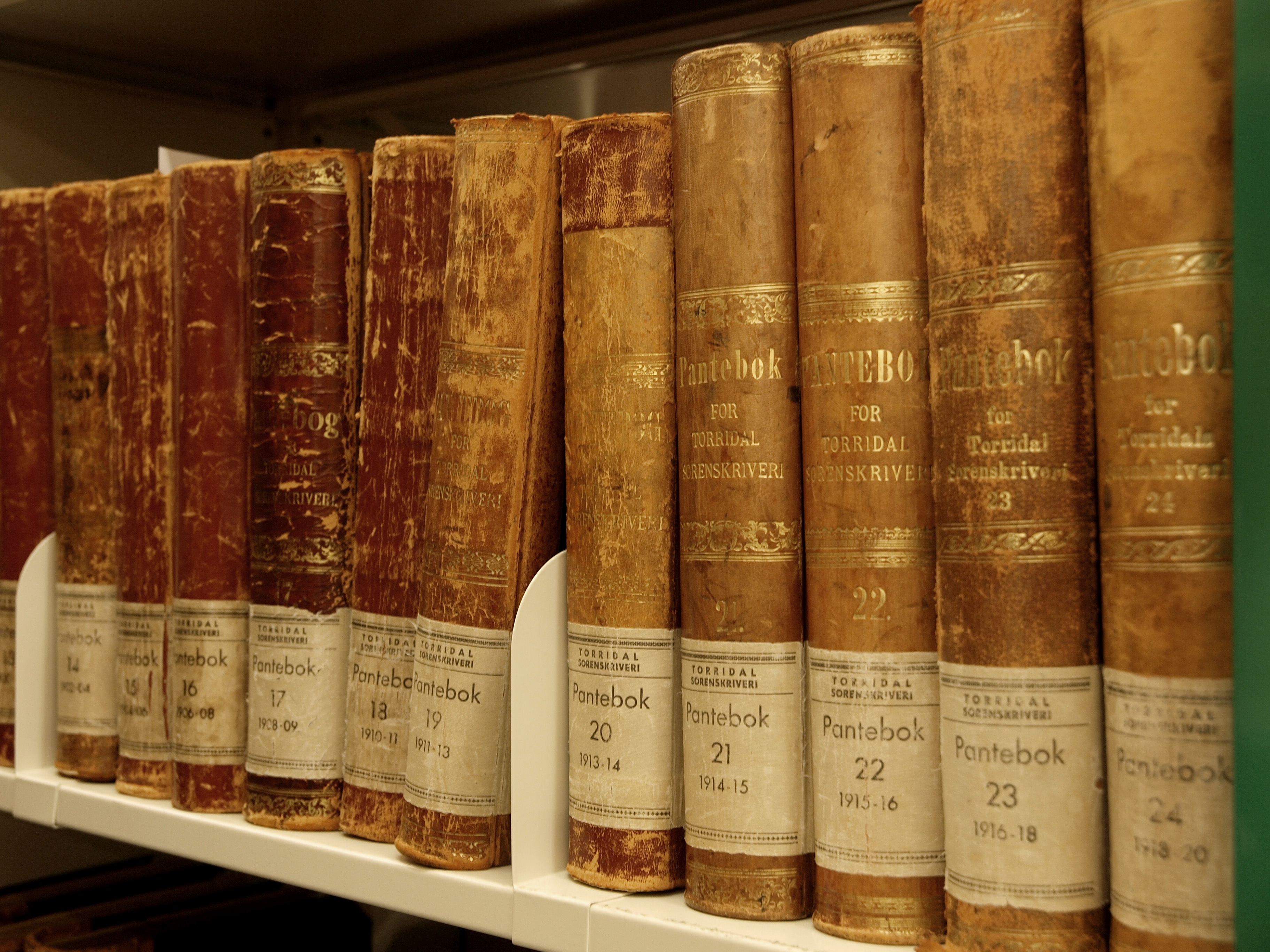 Real Estate Registers from Torridal kept at The Regional State Archives in Kristiansand